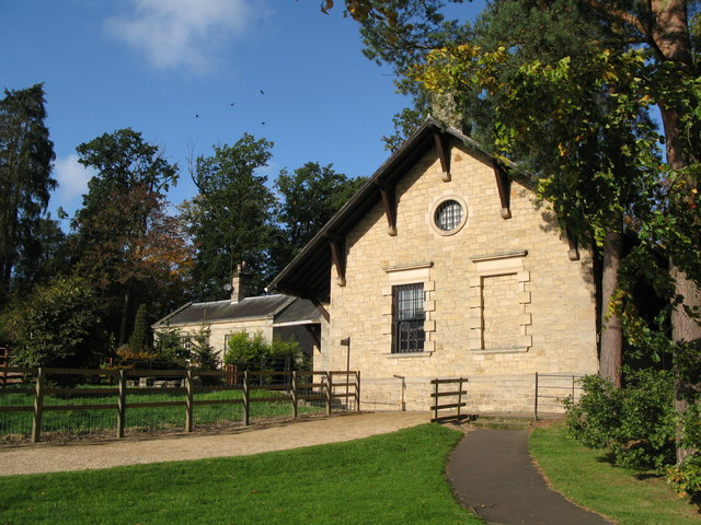 The museum building at Chesters Fort